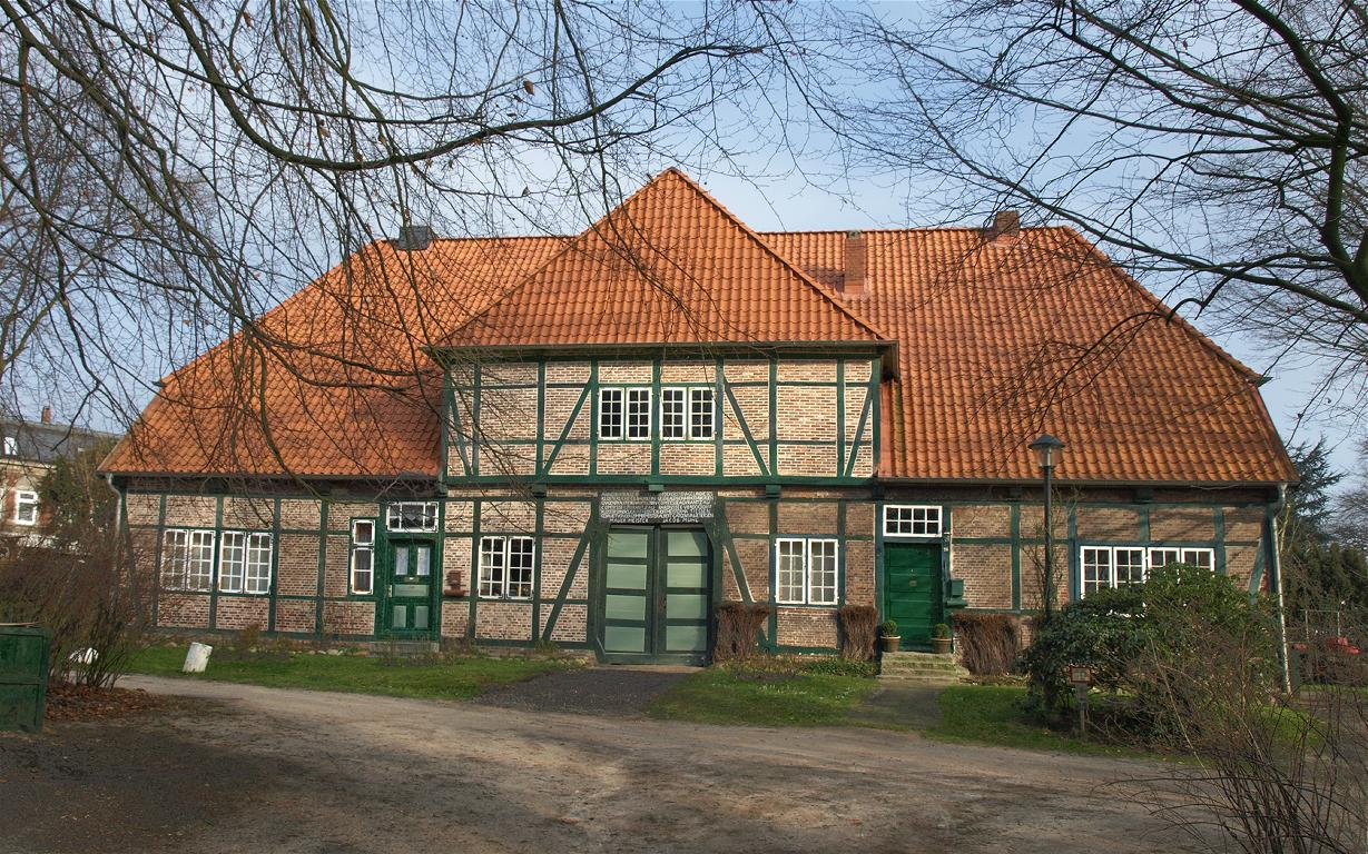 Monastery, Uetersen (Germany), "Vorwerk", photo 2008